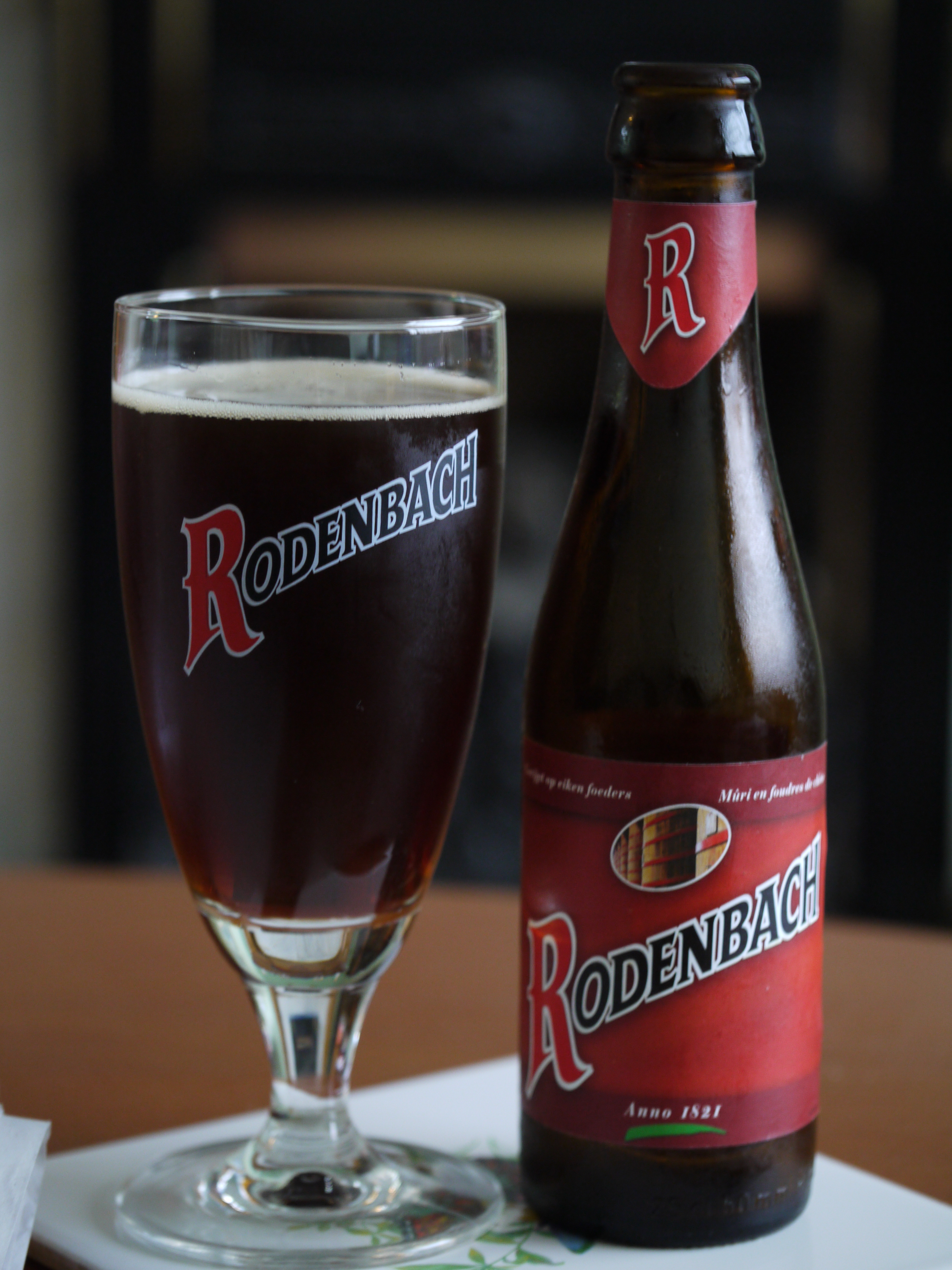 Rodenbach classic, a beer from Rodenbach brewery in Belgium